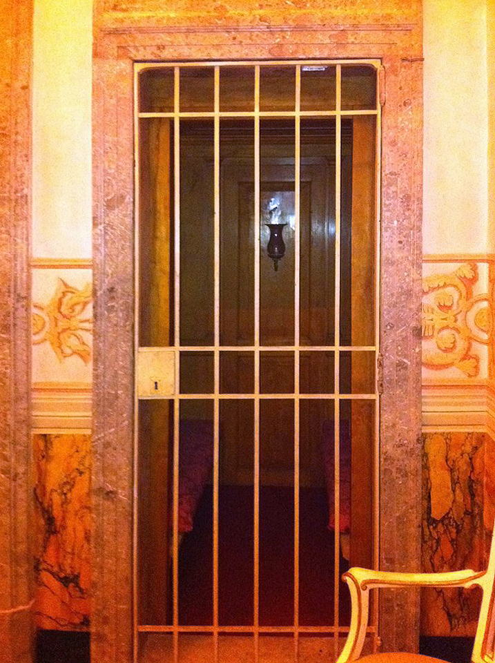 the first lift of the story in the Royal Palace of Caserta / il primo ascensore della storia nella Reggia di Caserta